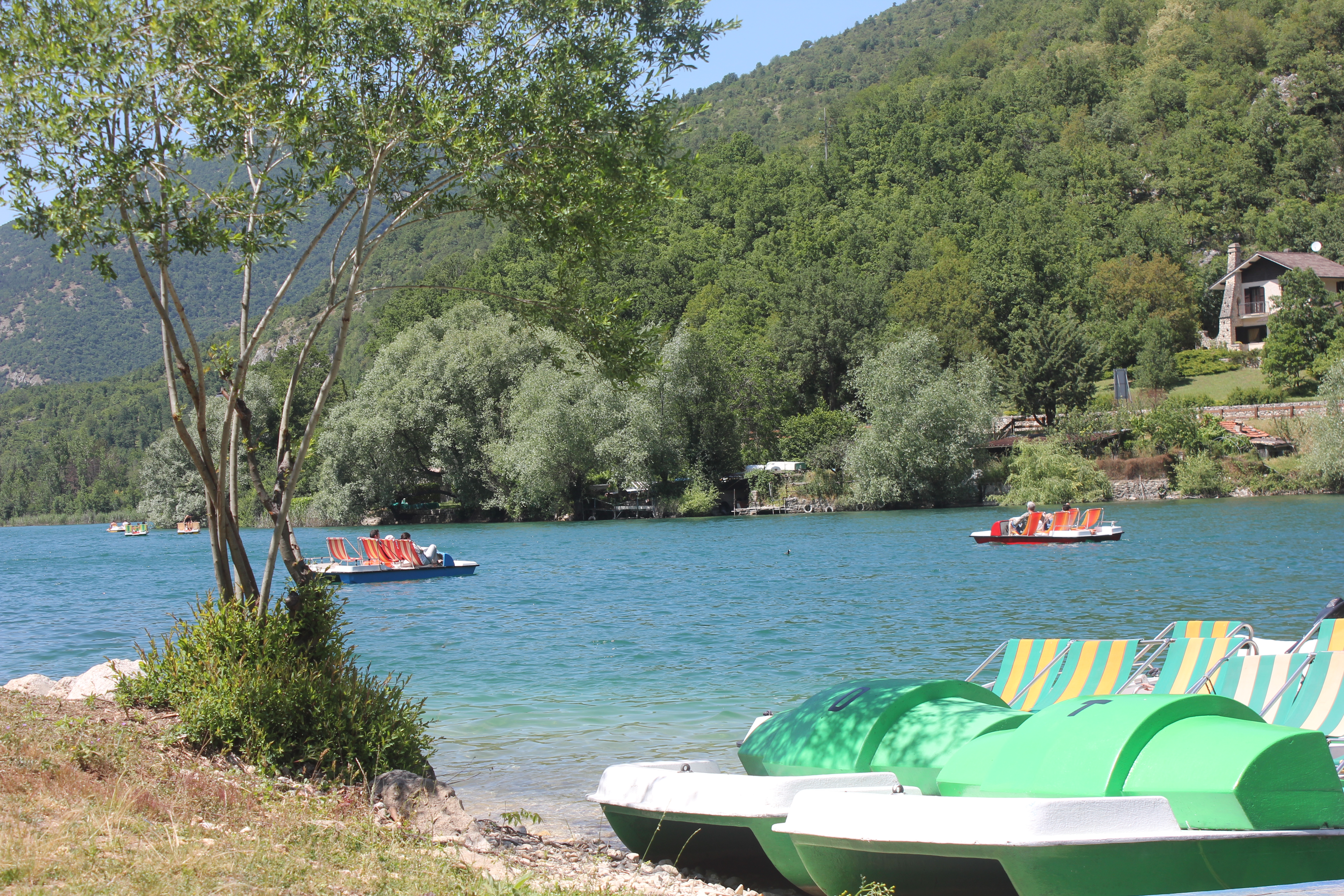 Lake of Scanno in L'Aquila, Abruzzo